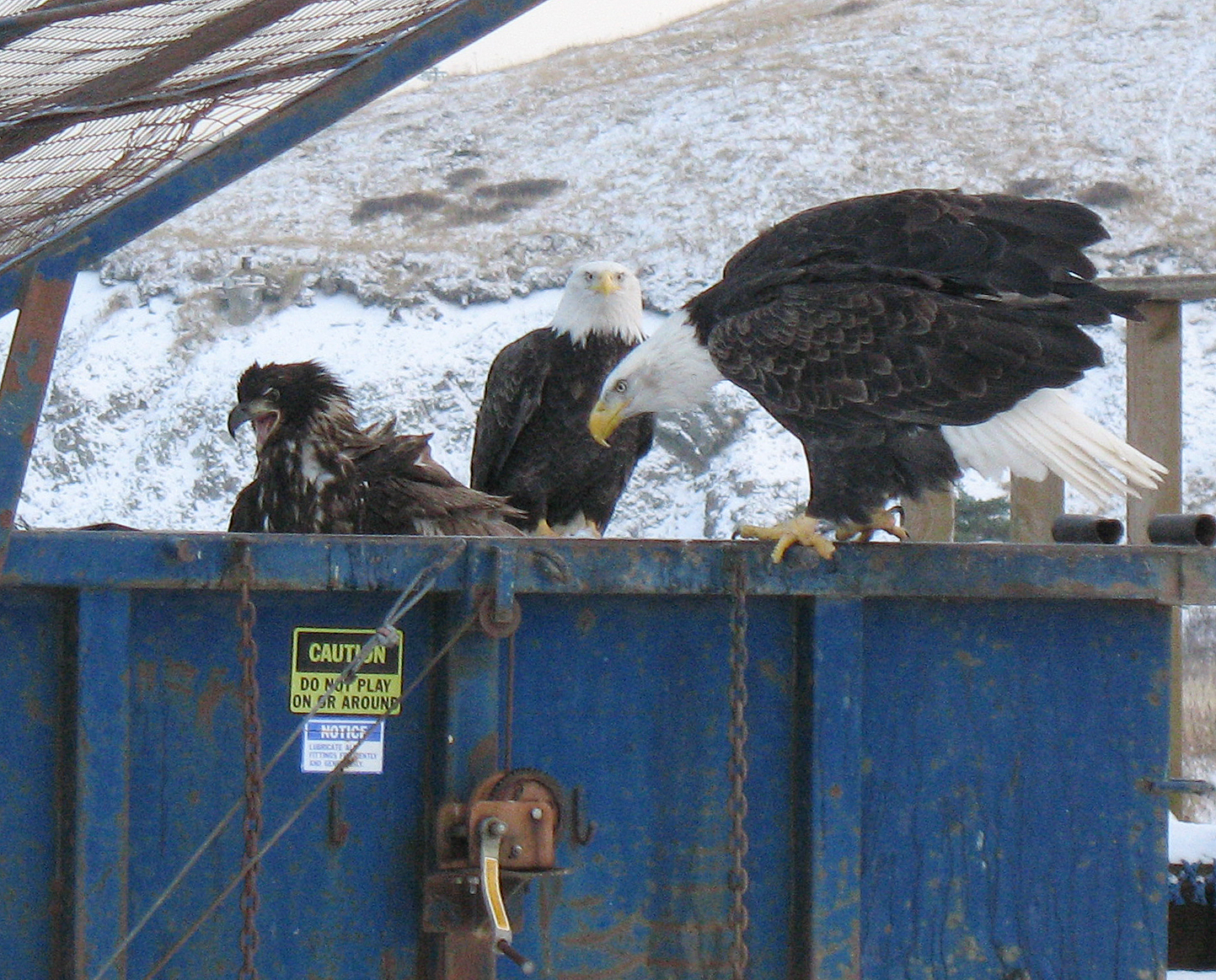 Eagles are notorious in fishing towns for their attraction to fish processing waste. Dutch Harbor, Alaska